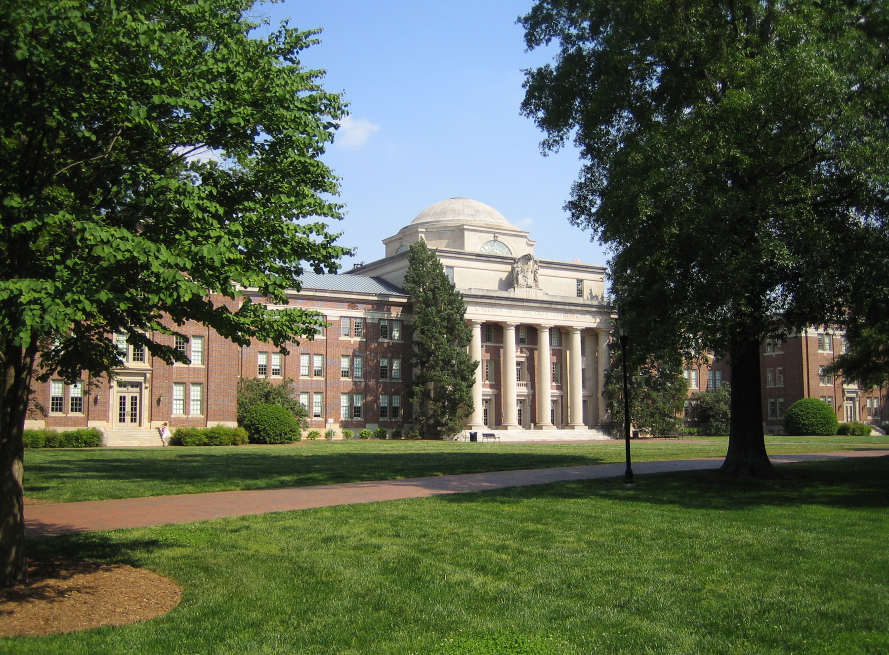 The Chambers Building at Davidson College in Davidson, North Carolina.